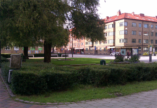 Karlskronaplan (Amiralsgatan), Malmö, Sweden